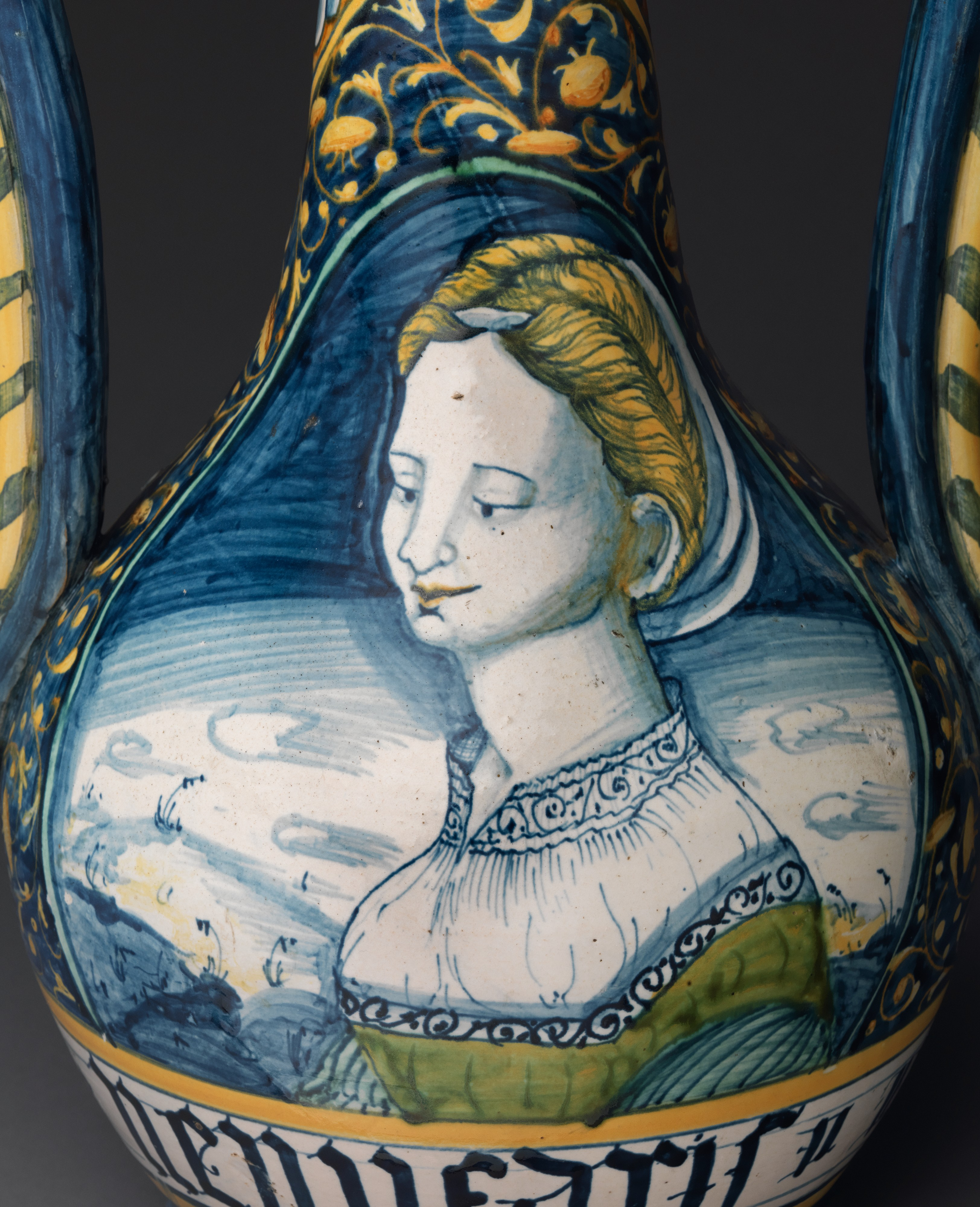 Italian, Castelli; Pharmacy bottle; Ceramics-Pottery